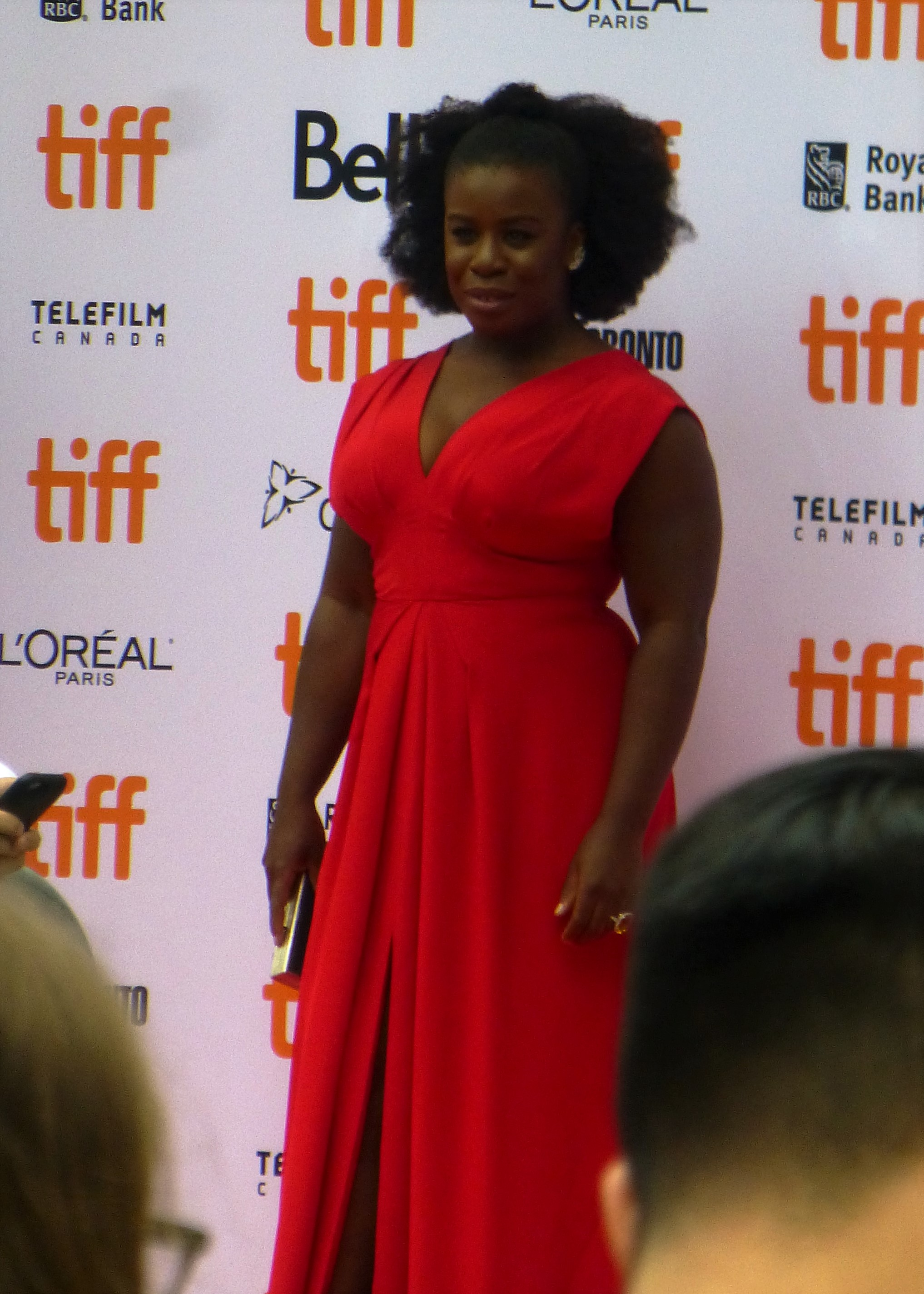 Uzo Aduba at the premiere of American Pastoral, 2016 Toronto Film Festival